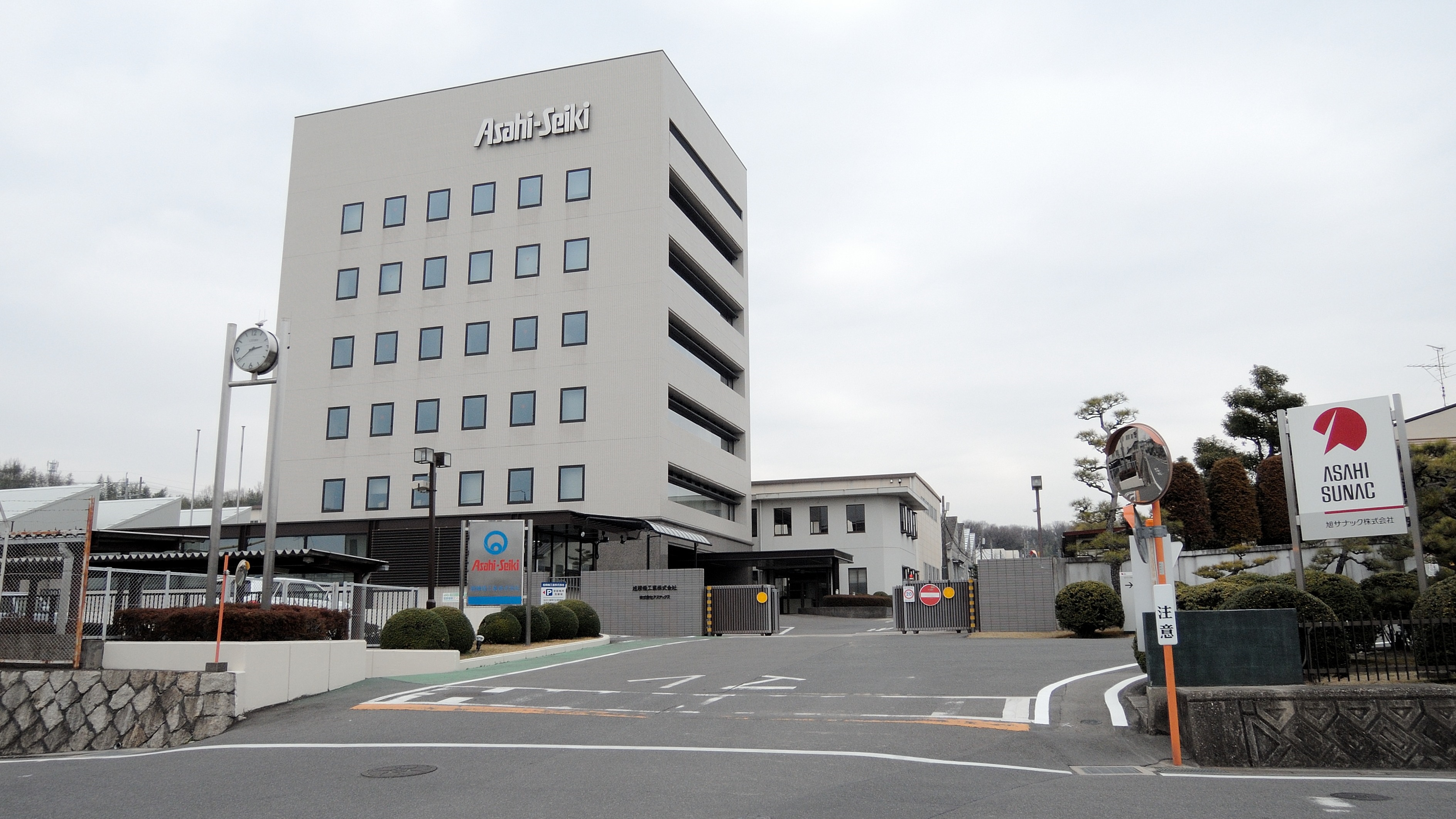 Headquarters of Asahi-Seiki Manufacturing Co., Ltd,Aichi prefecture,Japan